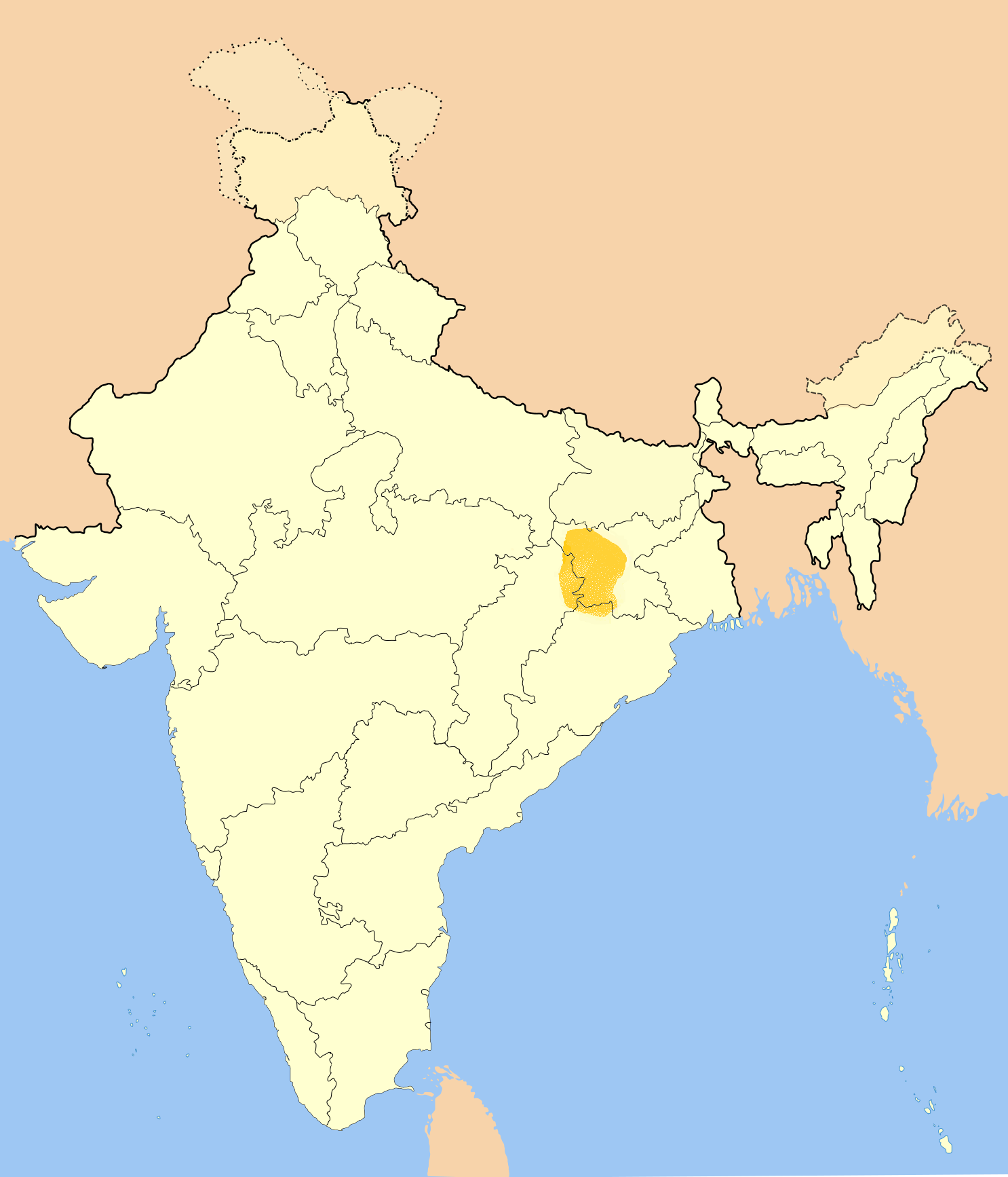 Map of Sadri speaking region